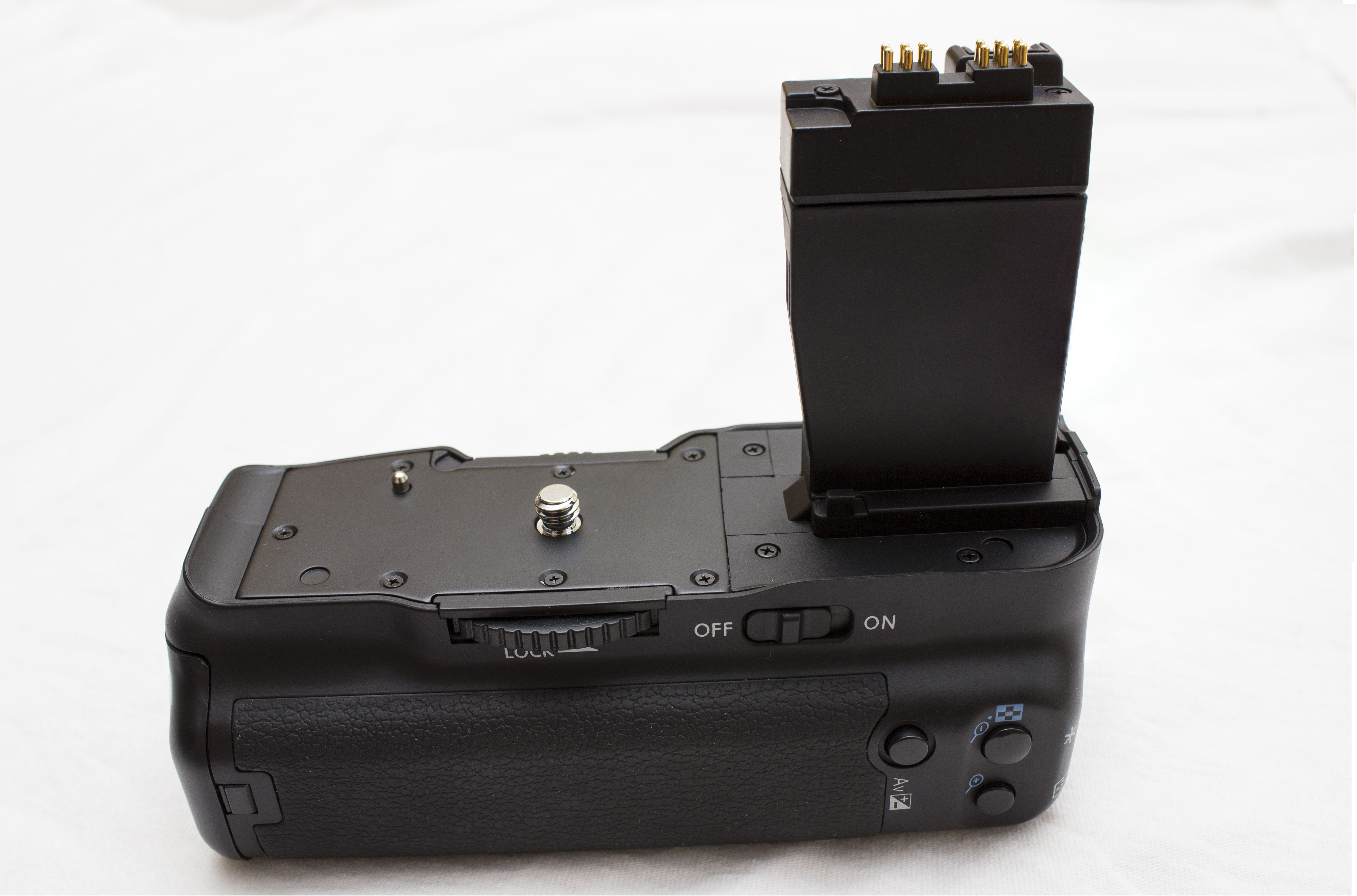 Neewer battery grip for canon T2i, T3i, T4i, T5i, and 60D